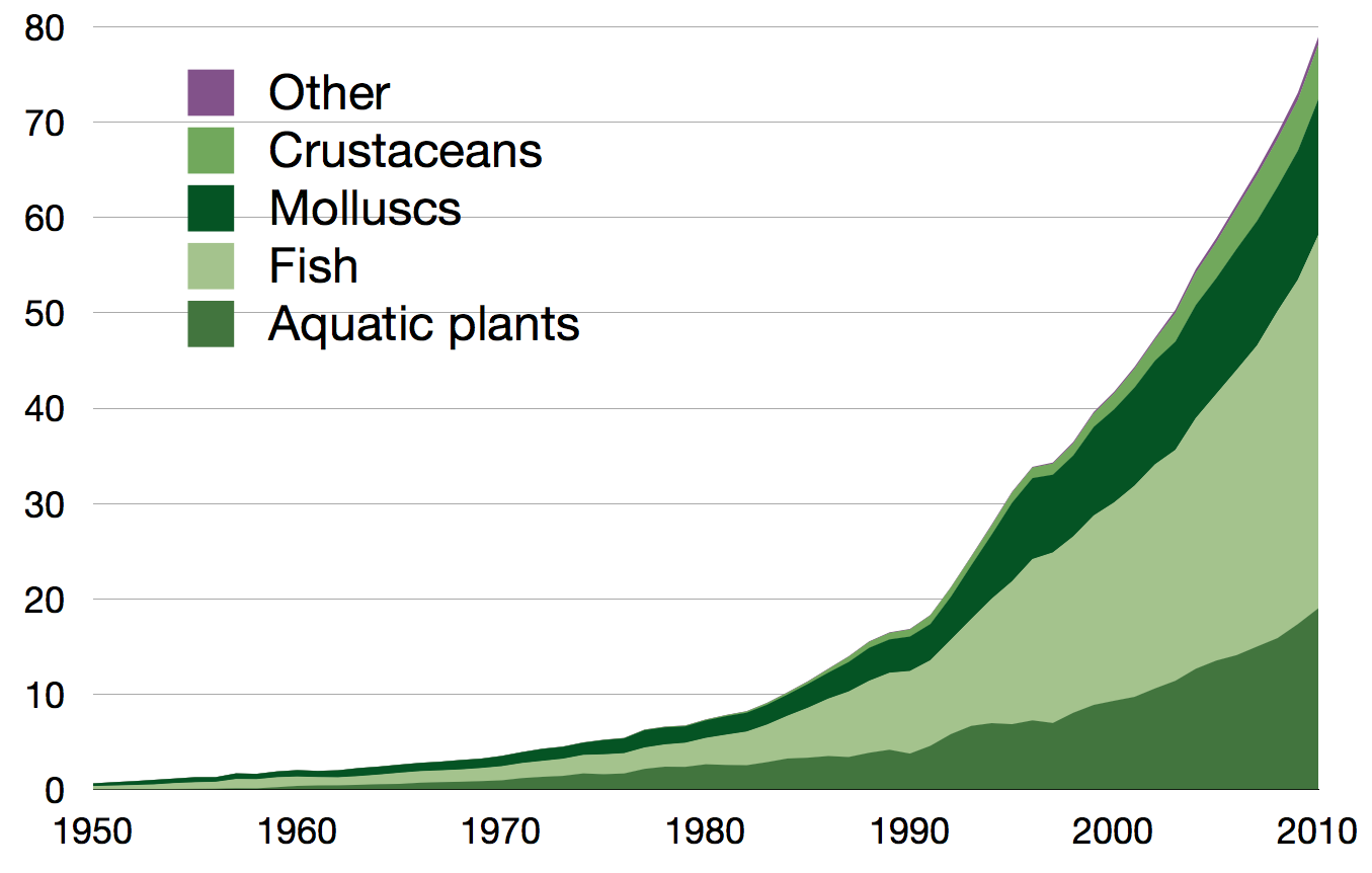 Global aquaculture production by species groups in million tonnes, 1950–2010, as reported by the FAO. Based on data sourced from the FishStat database